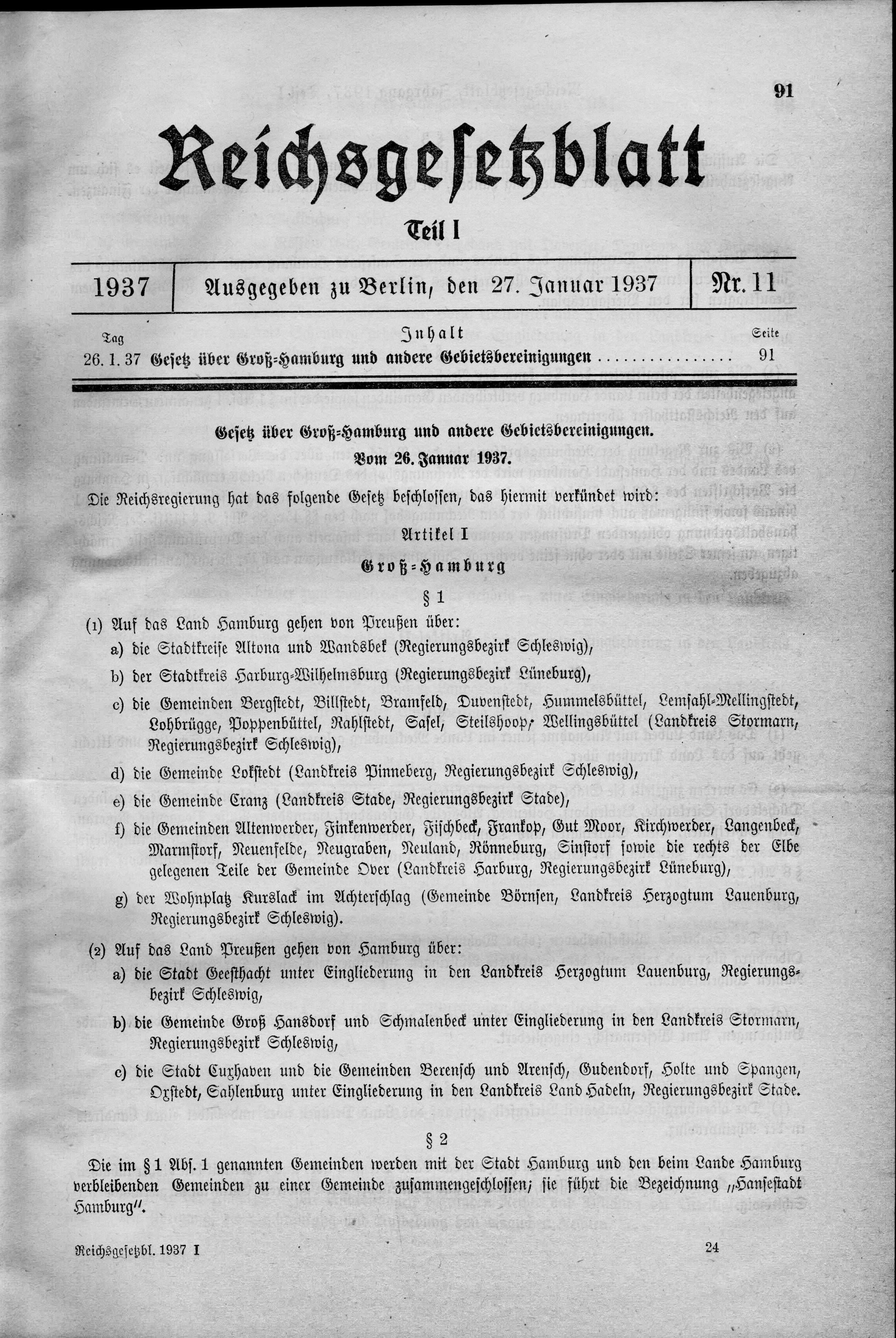 Scan from the Imperial Law Gazette of Germany, 1937, part 1